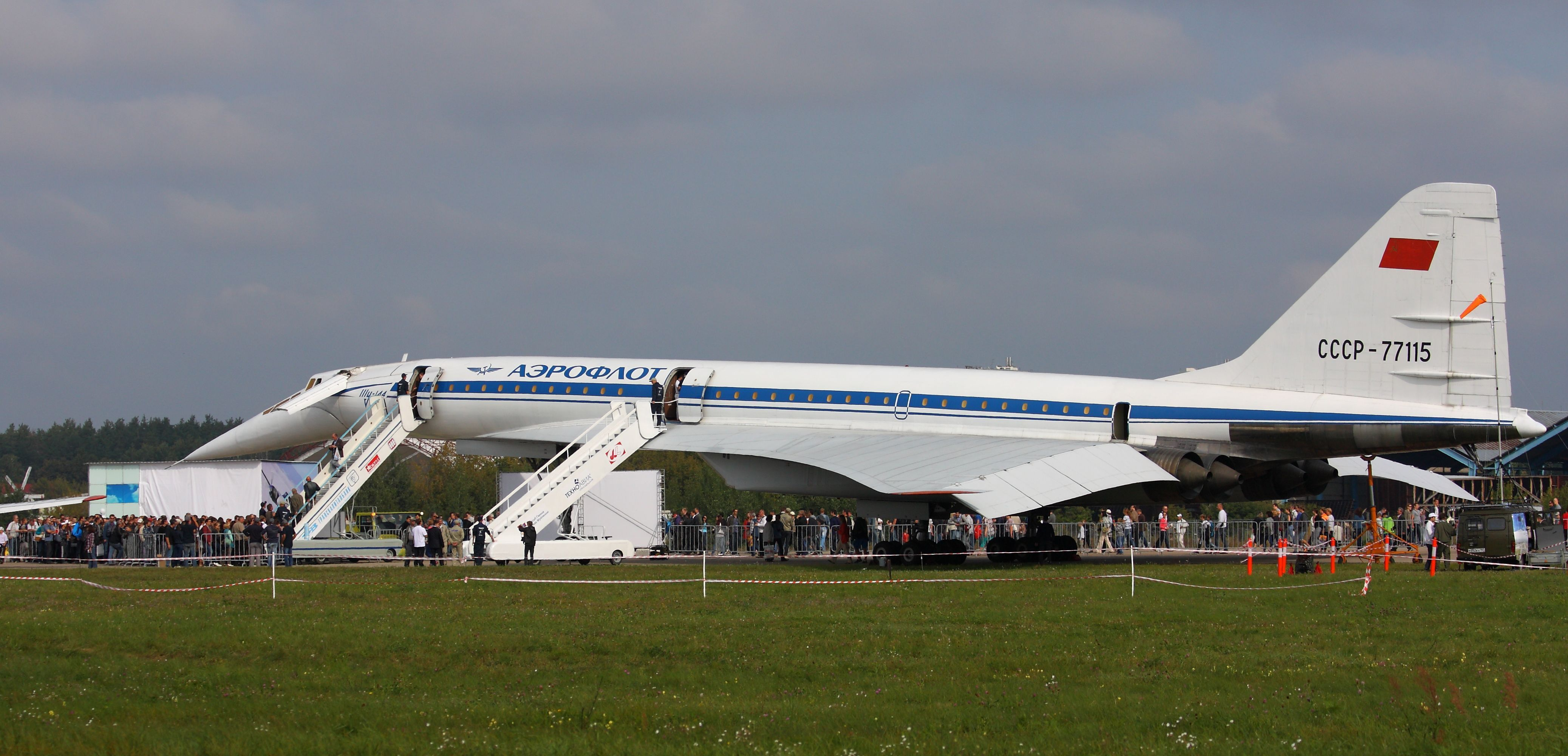 Tupolev Tu-144, (The international aerospace salon MAKS-2013)